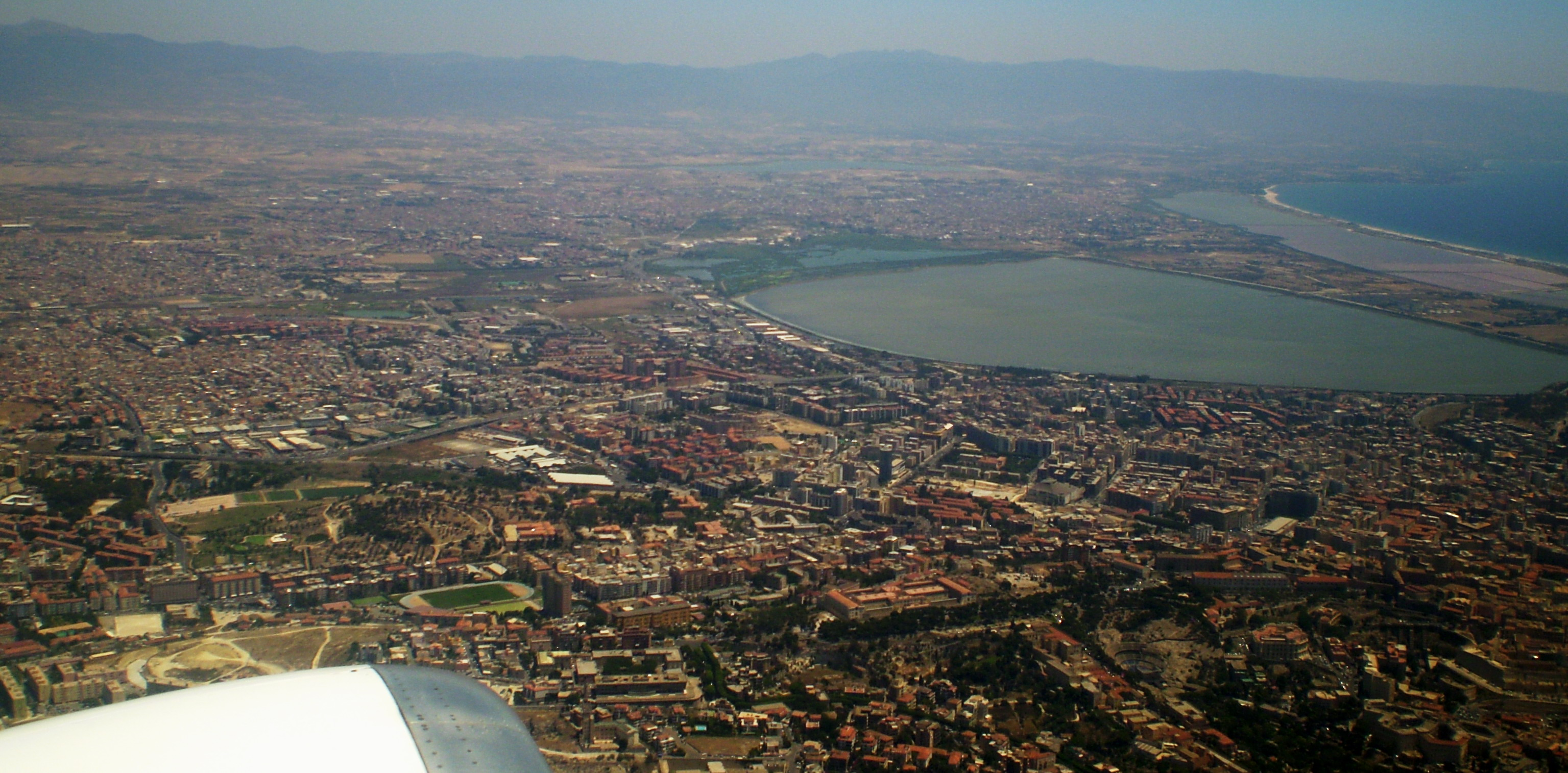 Cagliari and part of the metropolitan area from the plane